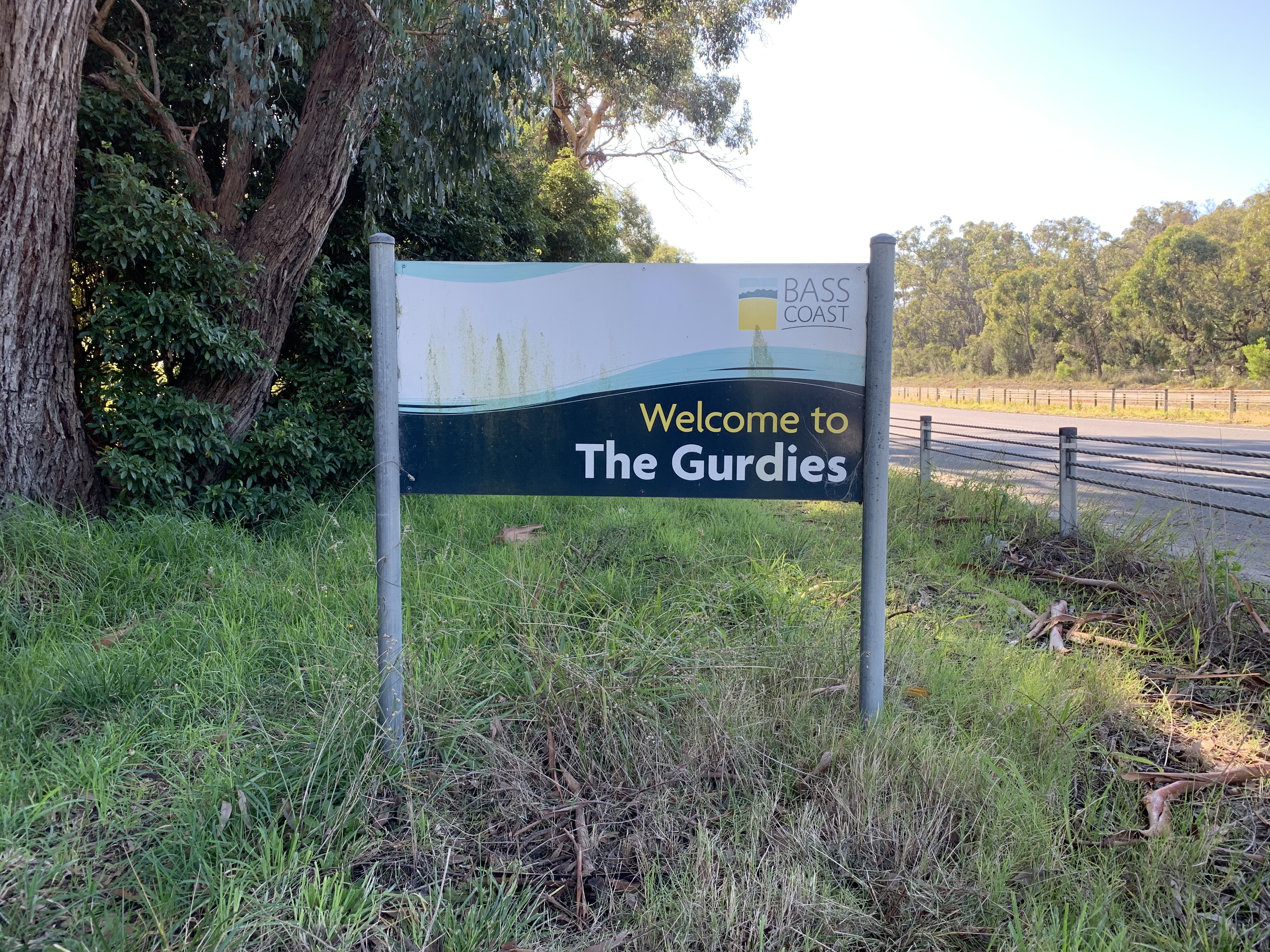 The Bass Coast Shire Council's, roadside sign, welcoming people to The Gurdies